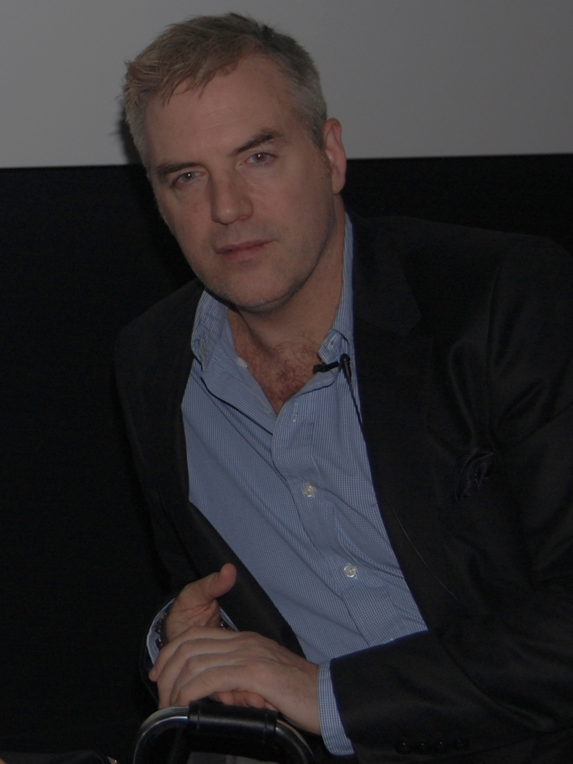 Investigative journalist Donal MacIntyre at Birmingham City University